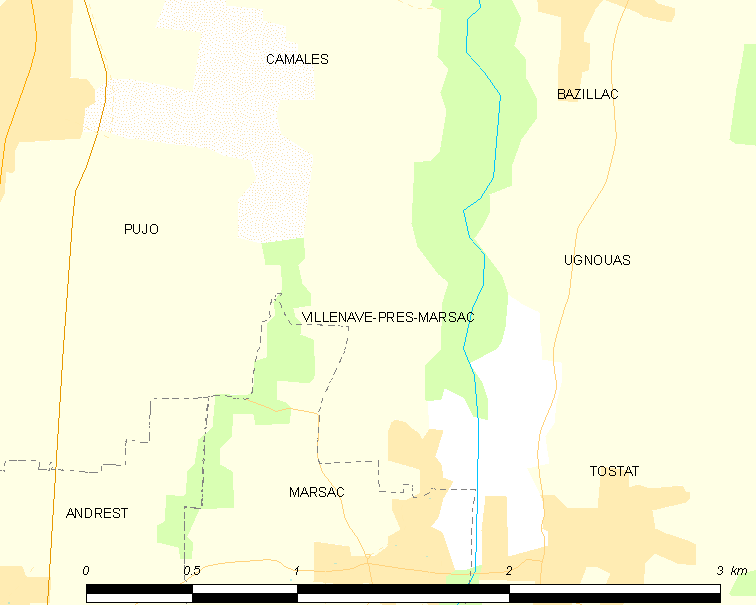 Map of French municipality